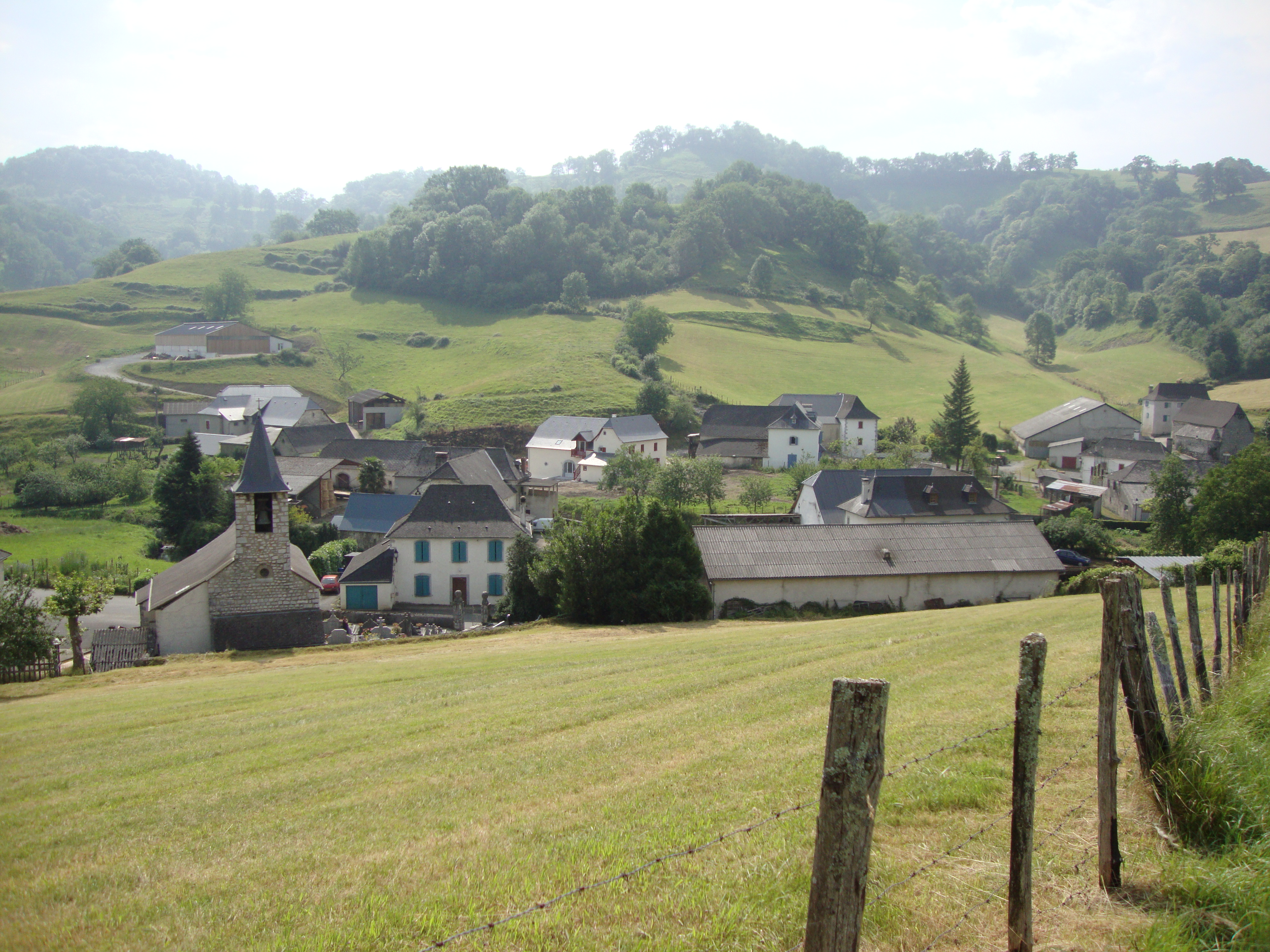 Camou (Camou-Cihigue, Pyr-Atl, Fr)